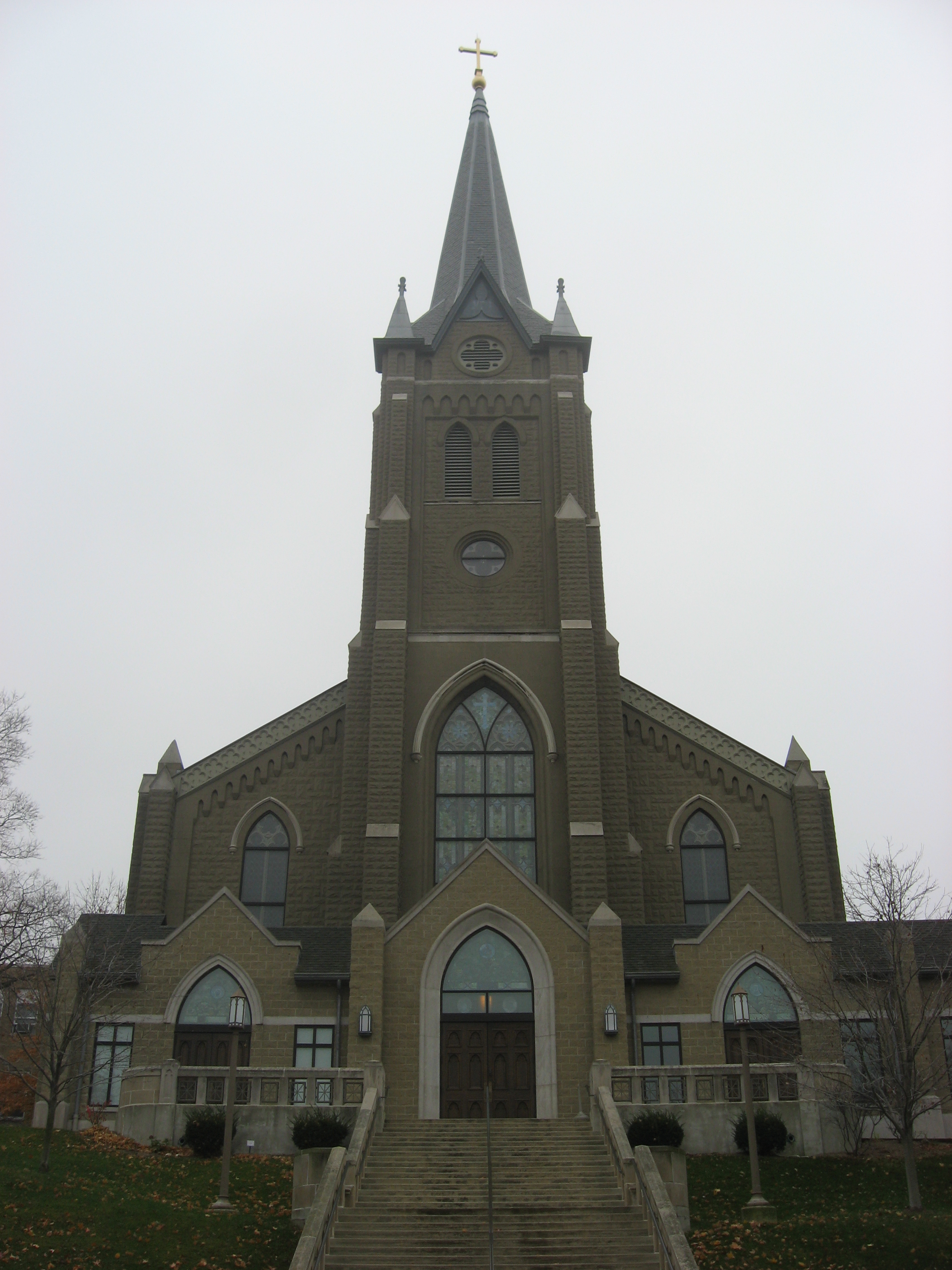 Front of the Cathedral of Saint Mary of the Immaculate Conception in Indiana, located at 1207 Columbia Street in Lafayette, Indiana, United States. Built in 1866, it is the seat of the bishop of the Roman Catholic Diocese of Lafayette-in-Indiana. It is also a part of the St. Mary Historic District, a historic district that is listed on the National Register of Historic Places. Cathedral website.